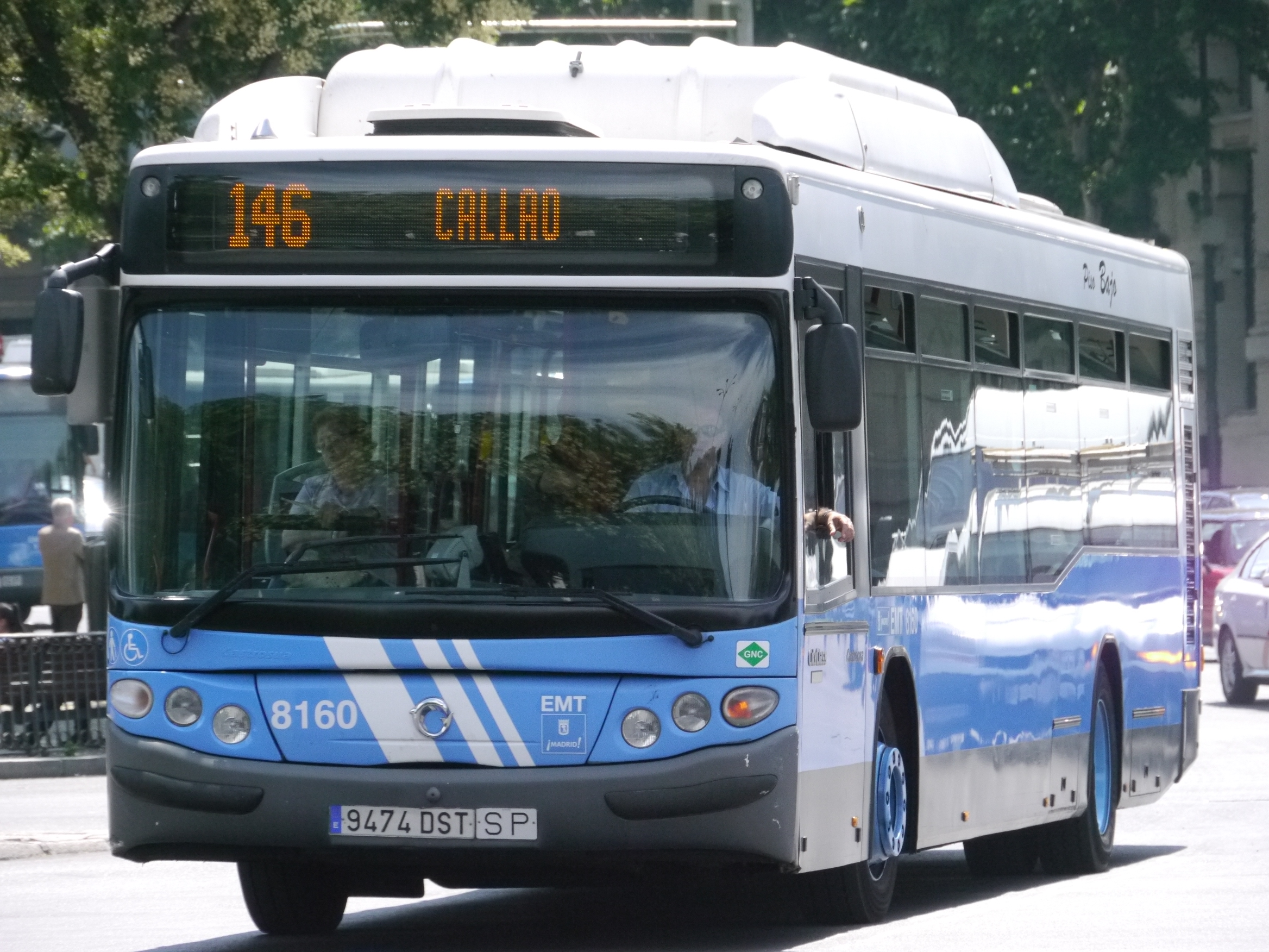 Cibeles. Castrosua CS-40 City II bus (#8160) with Irisbus chassis in Madrid, Spain. EMT Madrid operator.